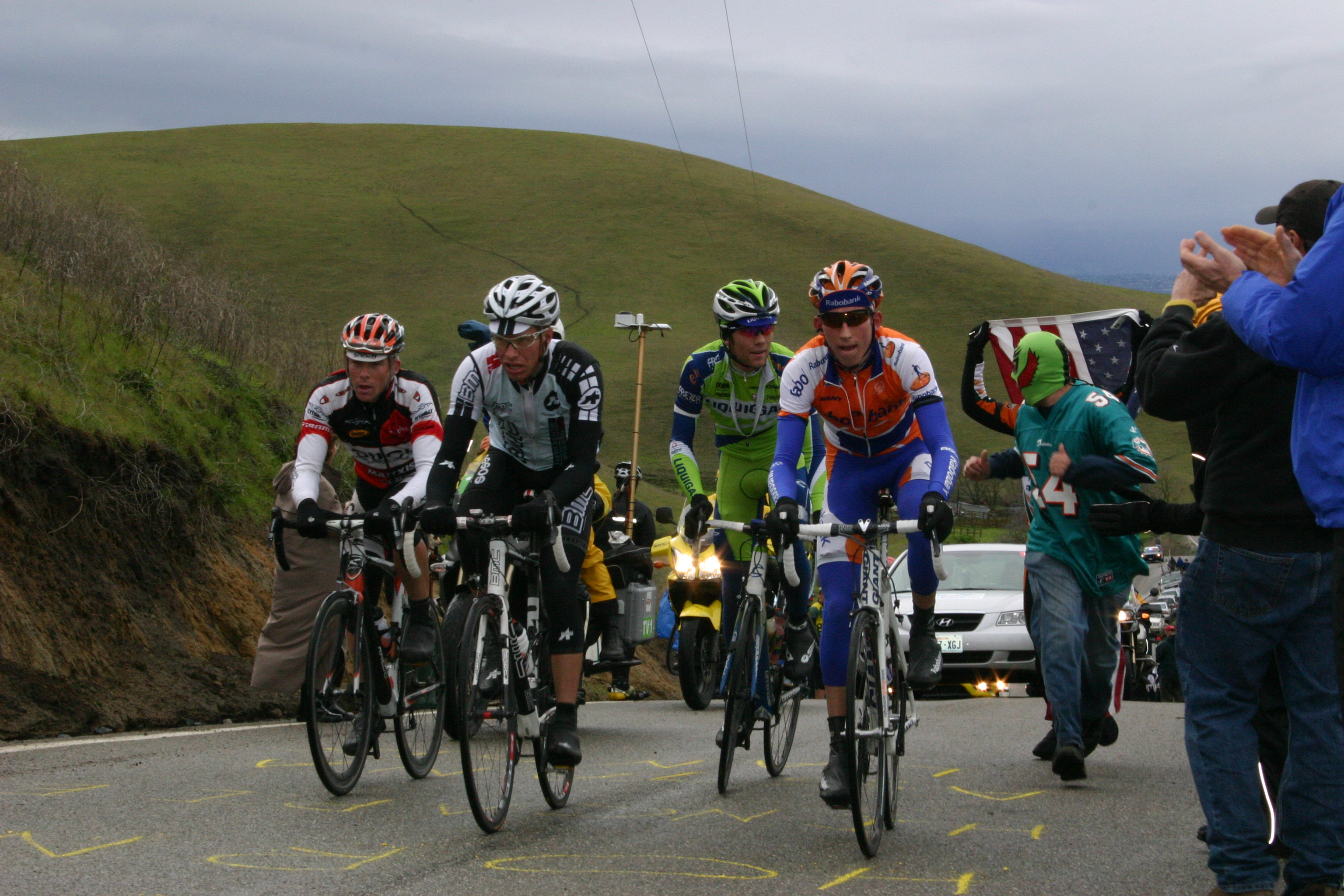 Bauke Mollema (Rabobank) leading the breakaway (with Brad White (OUCH-Maxxis), Jeff Louder (BMC Racing) and Brian Vandborg (Liquigas)) to the Patterson Pass KOM point during Stage 3 of the 2009 Tour of California.